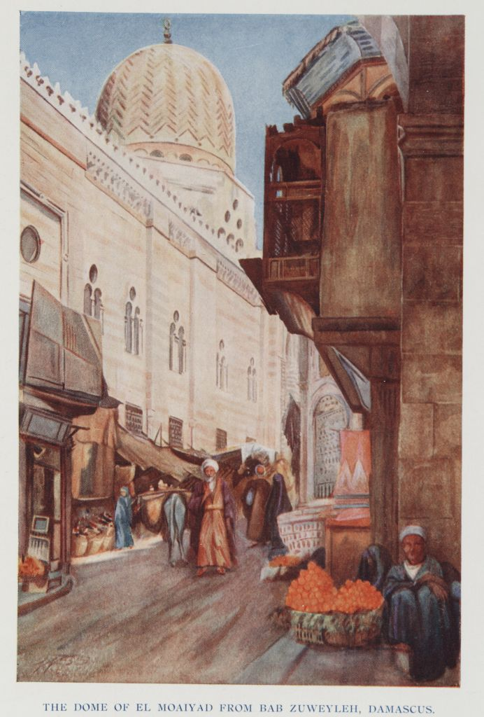 A street scene with the dome in the background. Painting.